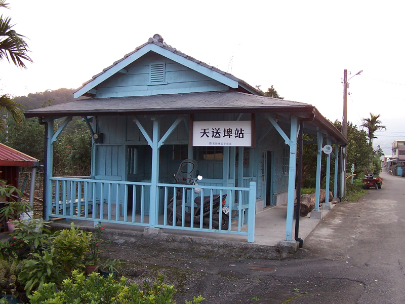 Taipingshan Forest Railway Tien-sung-pi Station